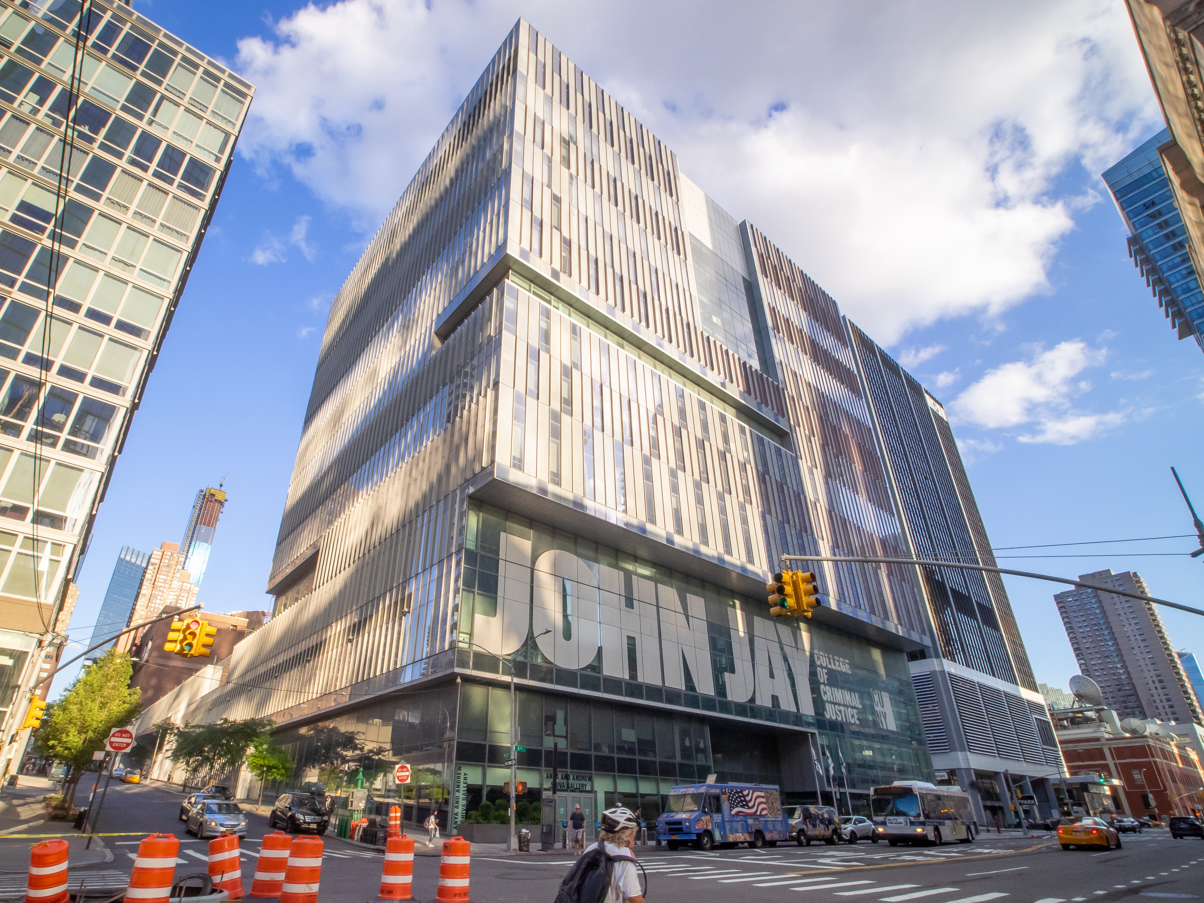 Midtown Manhattan, New York City